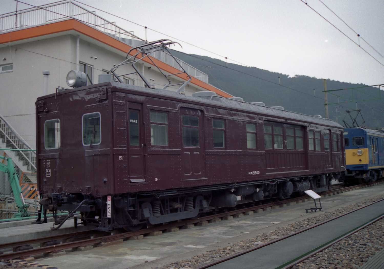 JNR Kumoe21800 EC. This picture was taken in Sakuma Rail Park.